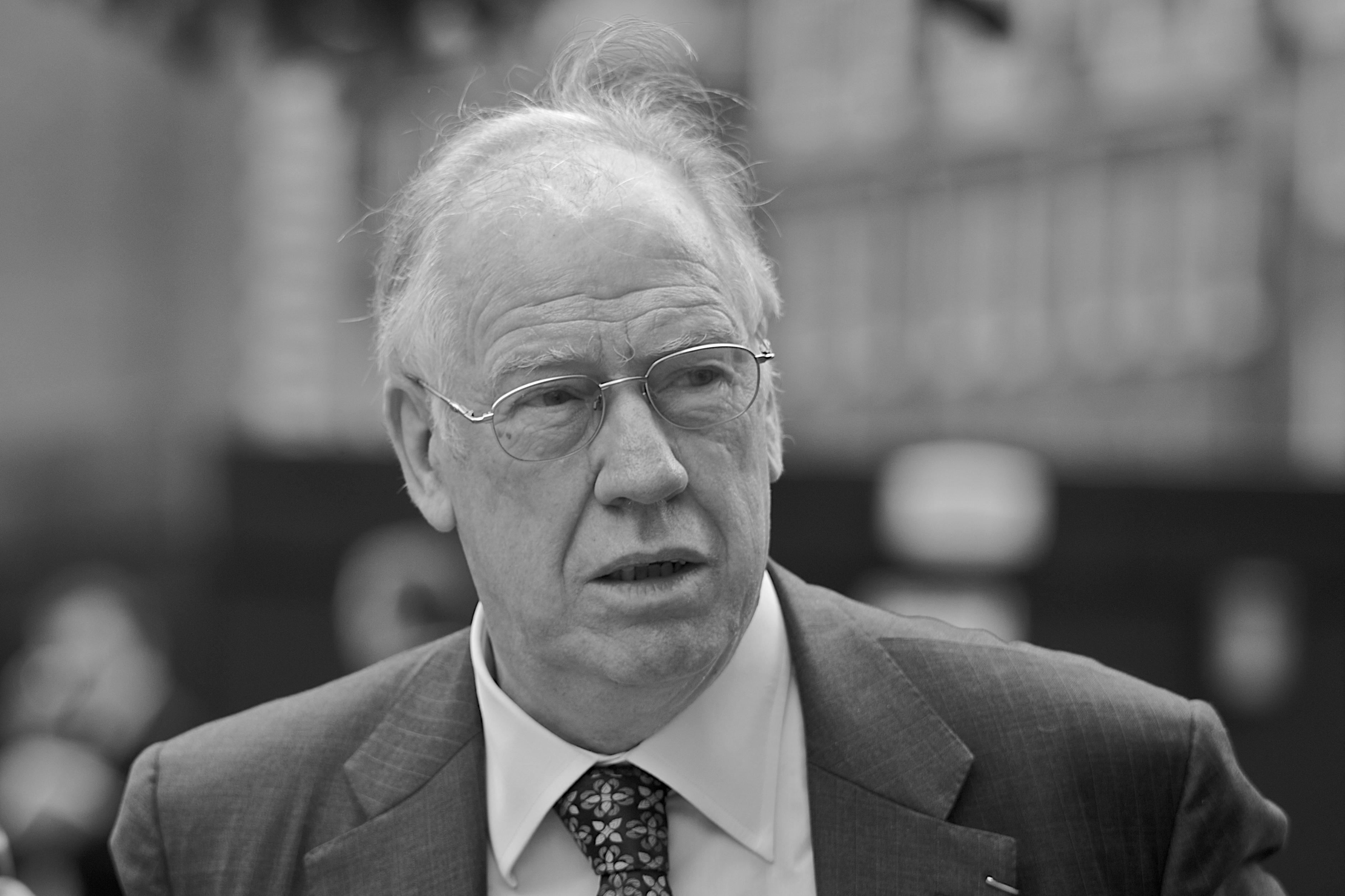 British Labour Party politician Stuart Bell in 2009